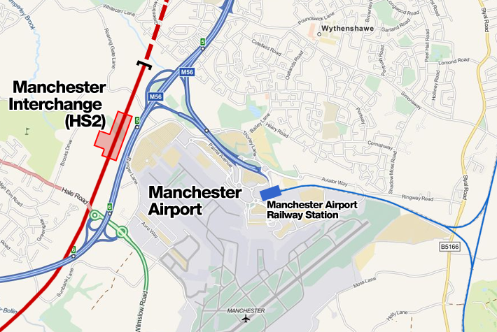 The proposed Manchester Interchange Station on the UK HS2 network This map may be incomplete, and may contain errors. Don't rely solely on it for navigation.